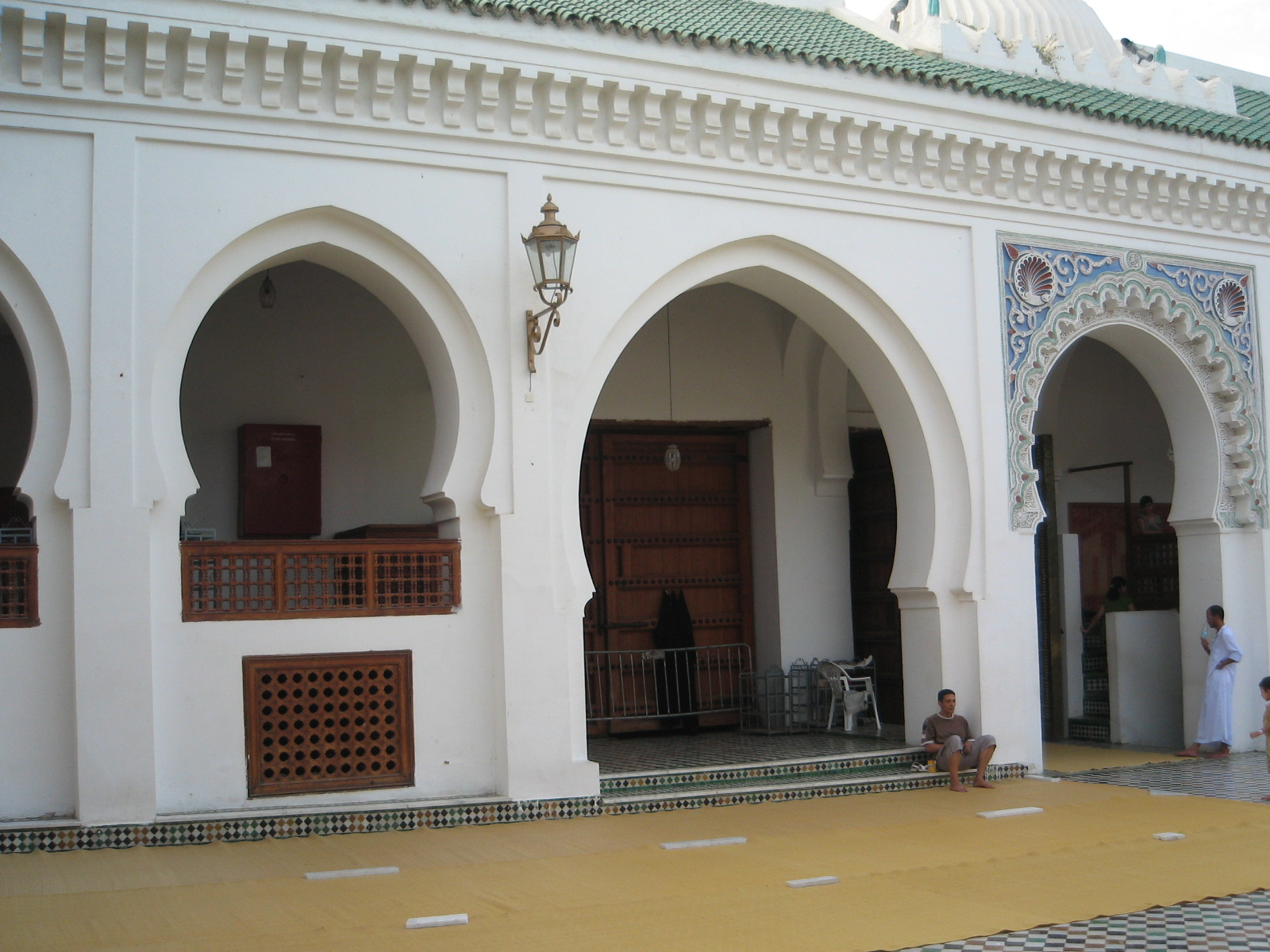 Al-Qarawiyyin University in Fes, Morocco